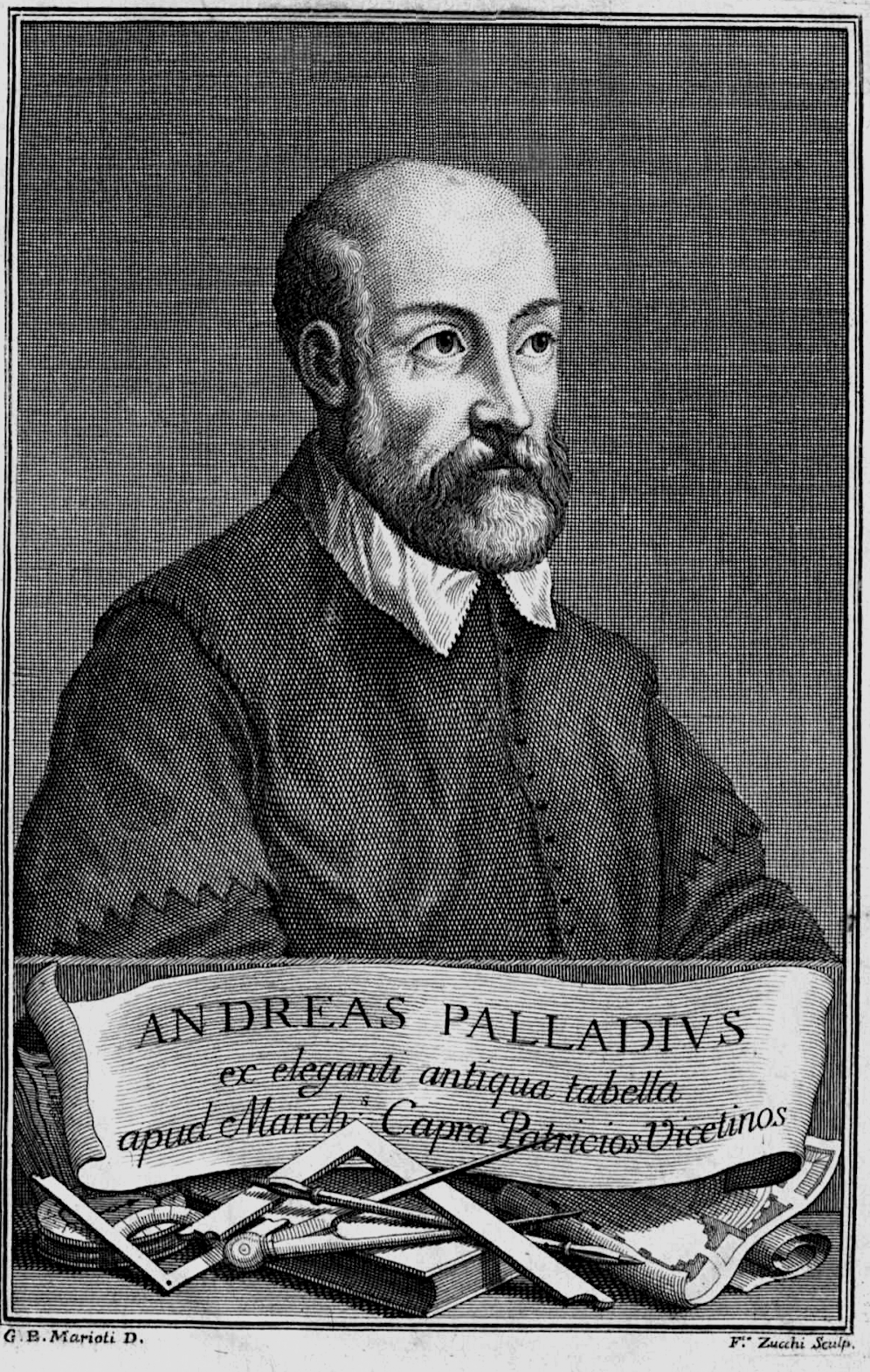 Old engraving of Andrea Palladio.